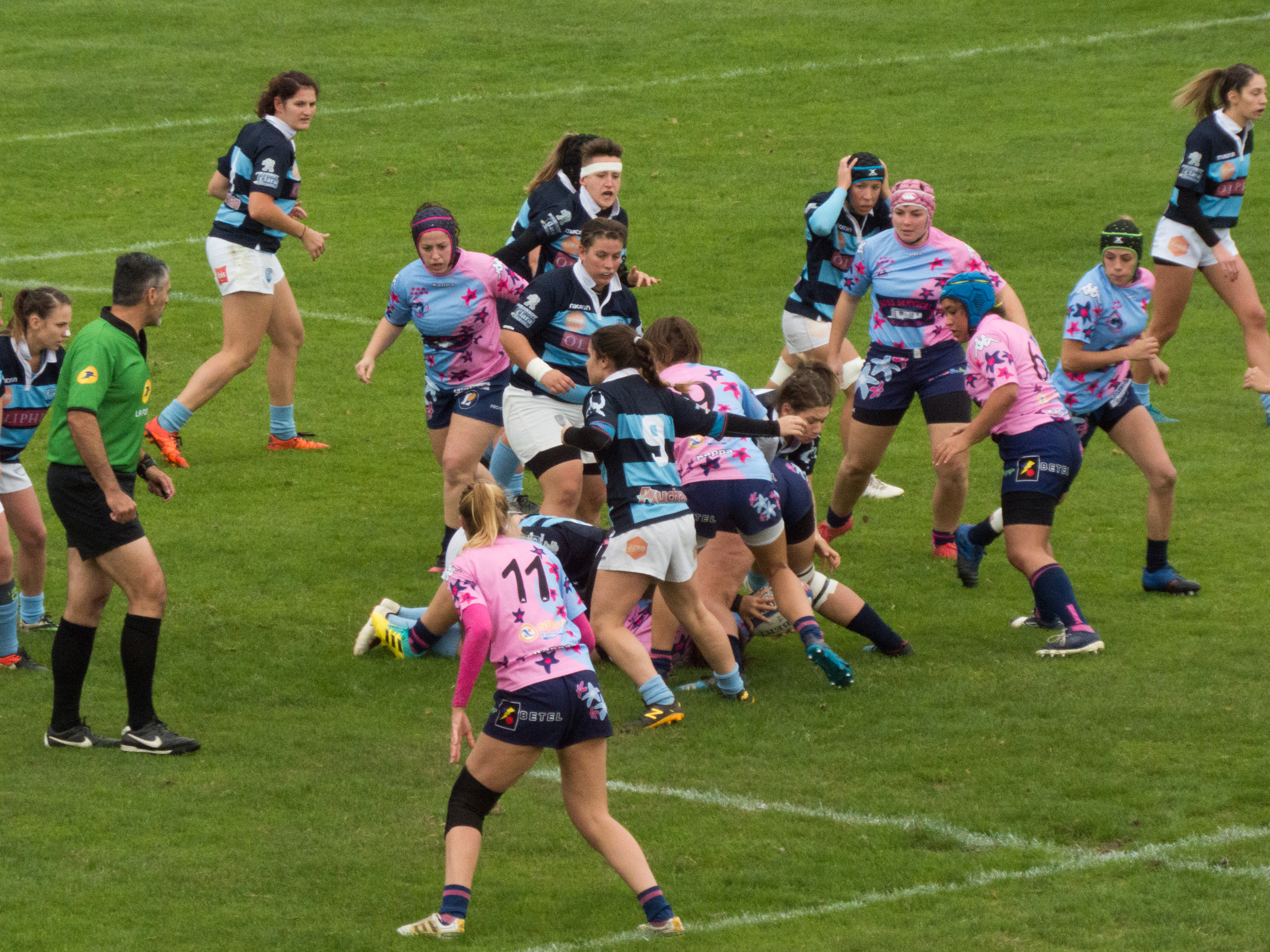 Q60050780 — 28 October 2018, stade Maurice-Boyau. Match between: Q3360155 — Q61746606